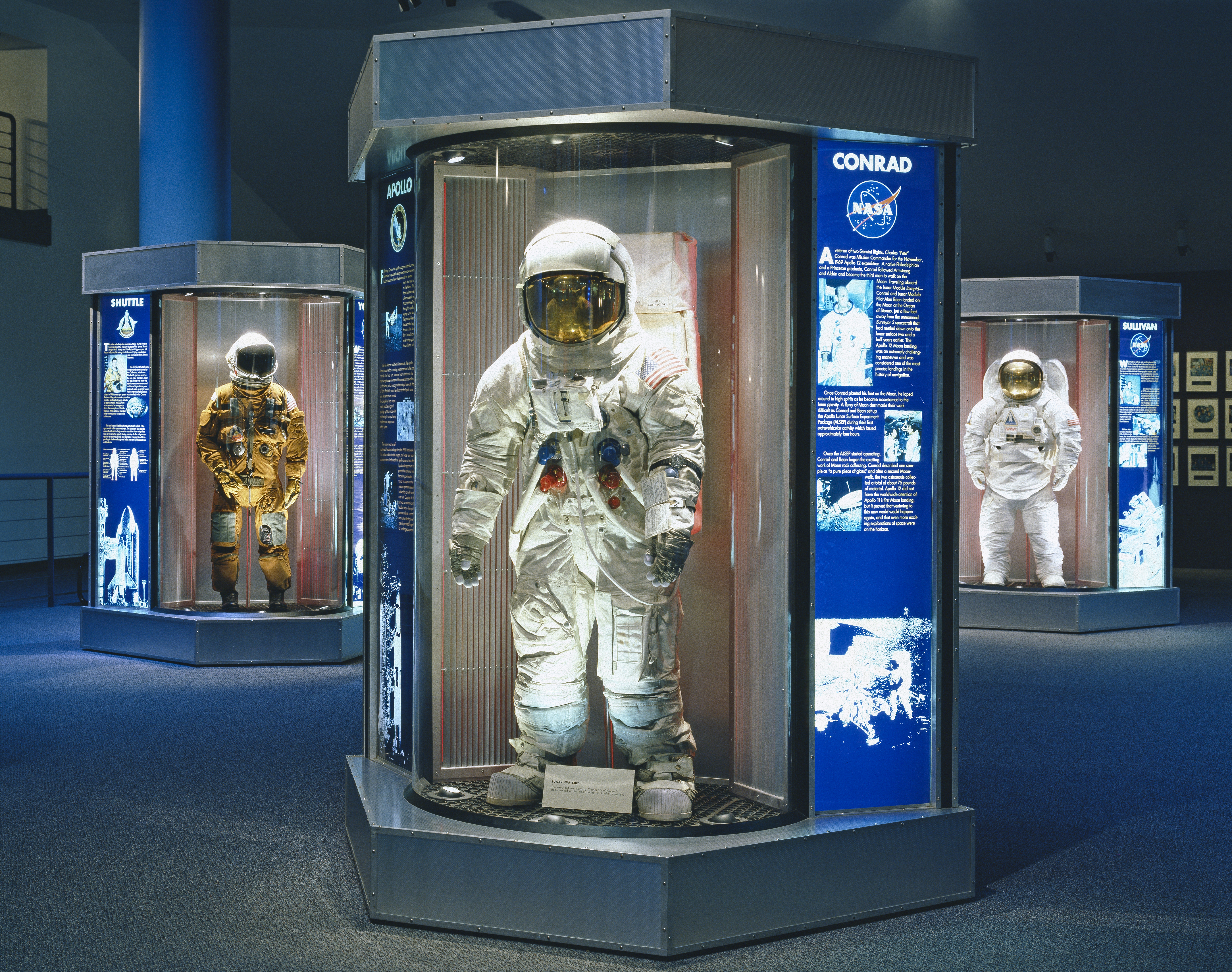 NASA Space suits on display at the Lyndon B. Johnson Space Center in Houston.